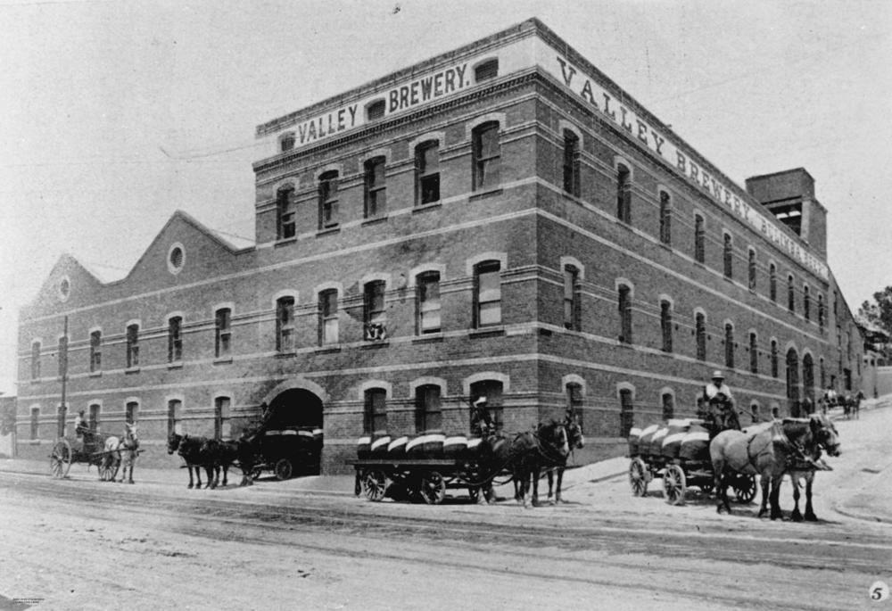 Queensland Brewery in Fortitude Valley, Brisbane, Queensland, 1908. The three-storey building is viewed from the street and bears the name Valley Brewery in this image. The building subsequently underwent extensions, including an additional storey, after suffering fire damage in January 1908. Workers can be seen transporting loaded wagons for delivery.